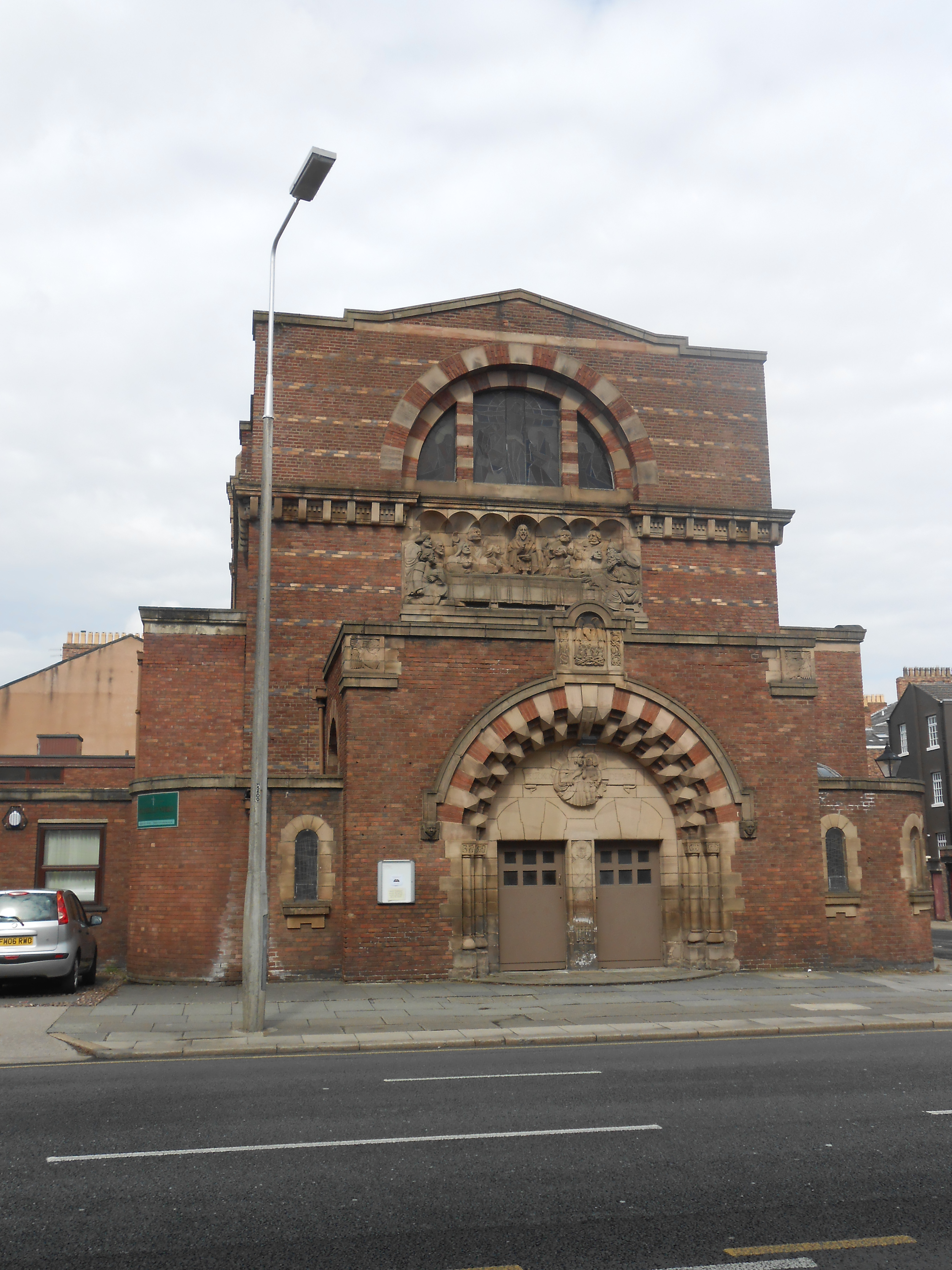 Roman Catholic church of St Philip Neri, Catharine Street, Liverpool, seen from the east